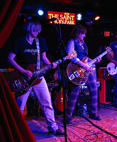 Kaia Wilson and Amy Ray on stage at The Saint, April 20, 2012.